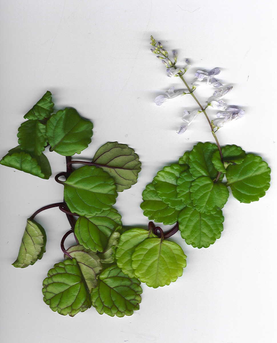 Plectranthus verticillatus (branch). Location: Maui, Piiholo